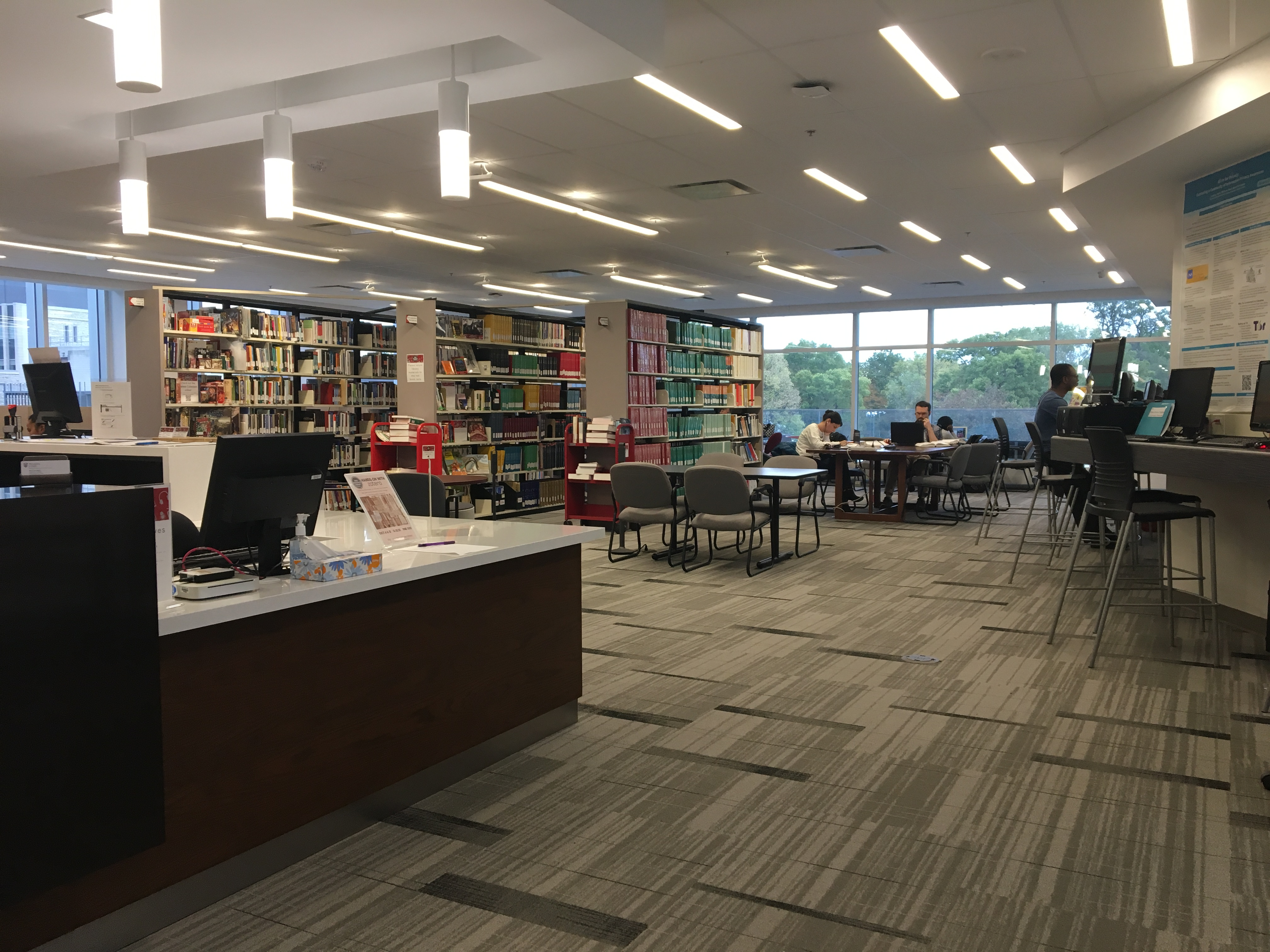 Image of the FIMS Graduate Library at Western University